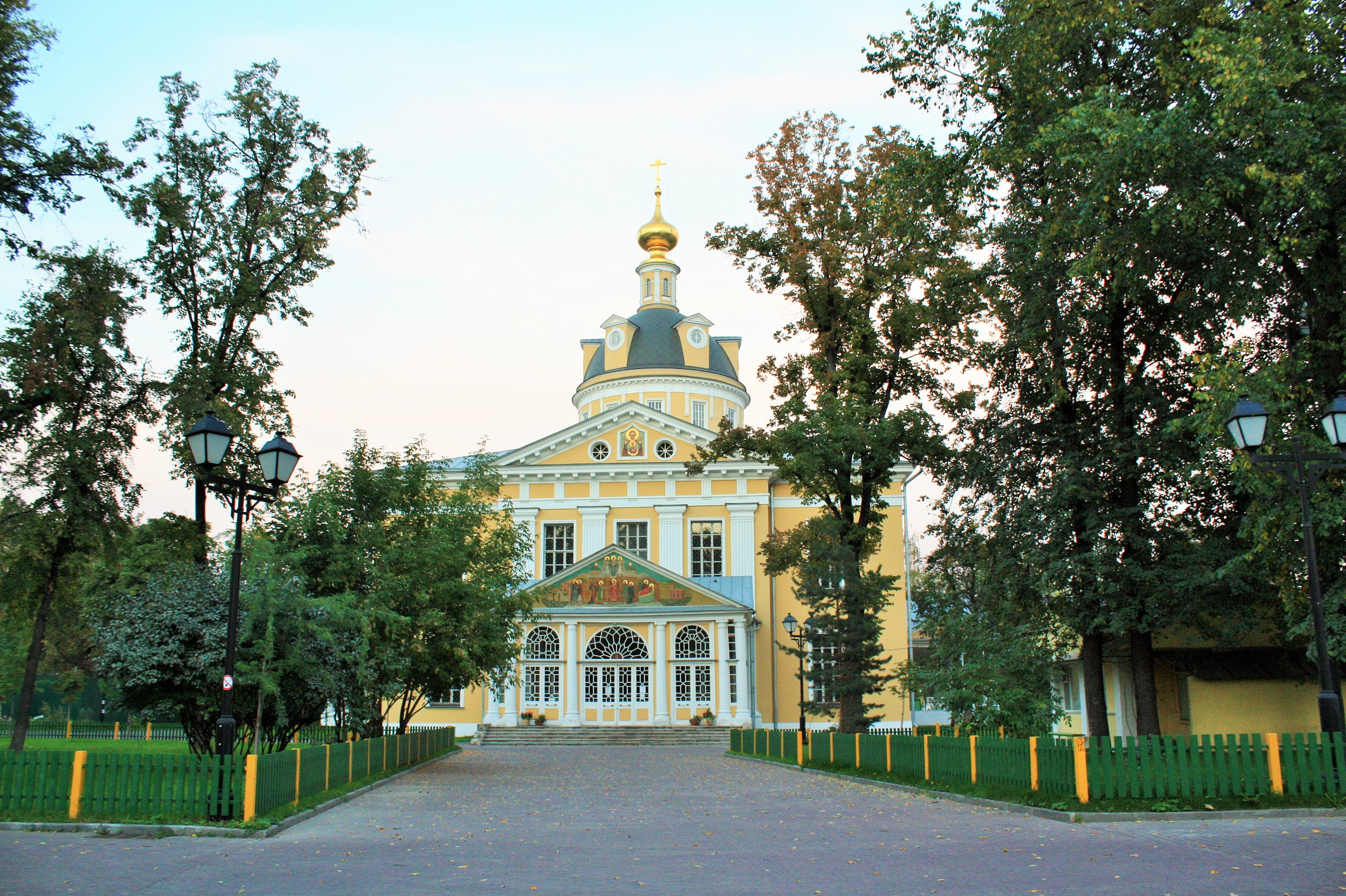 . Рогожское